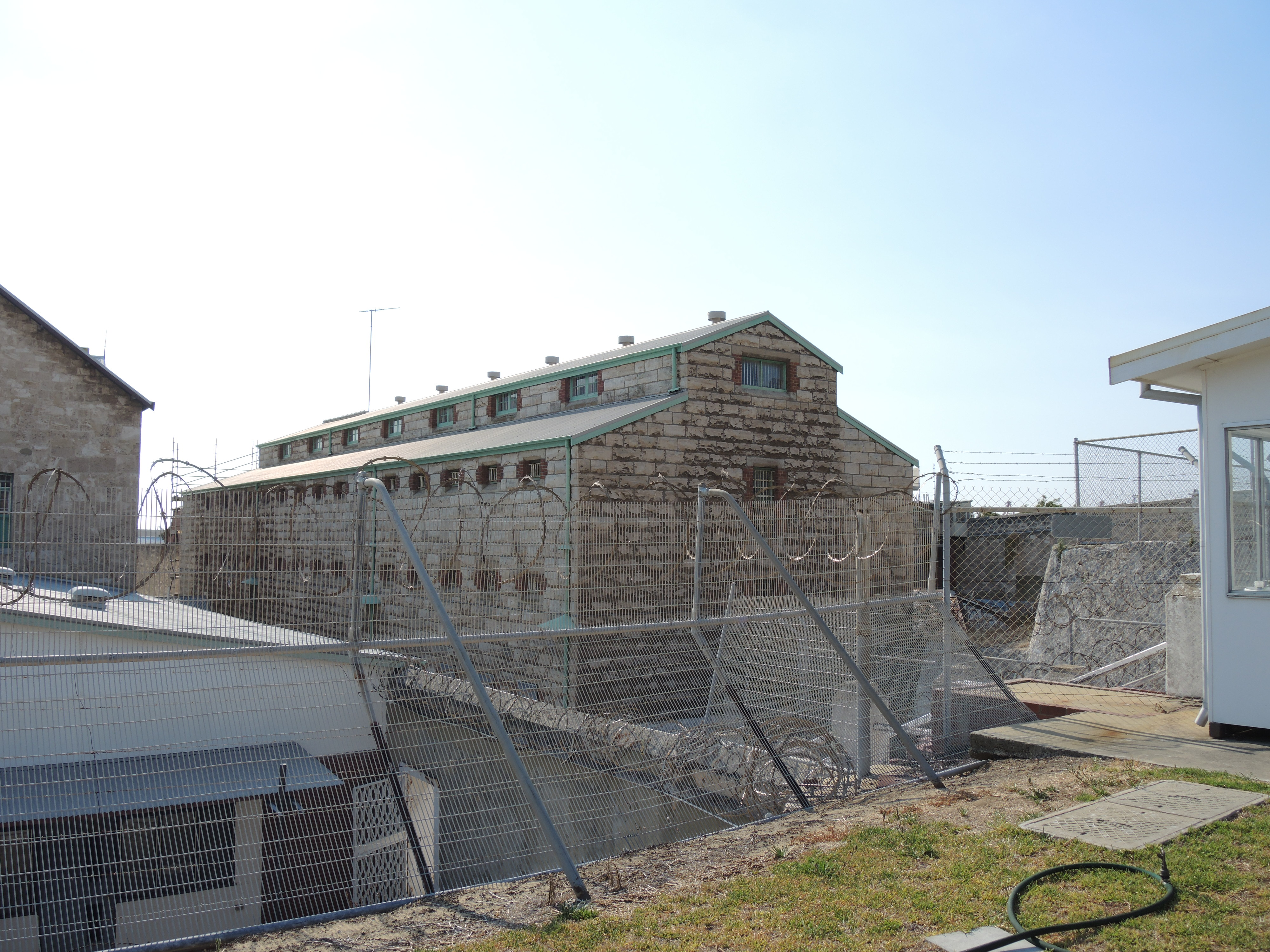 Fremantle Prison: New Division, view from terrace